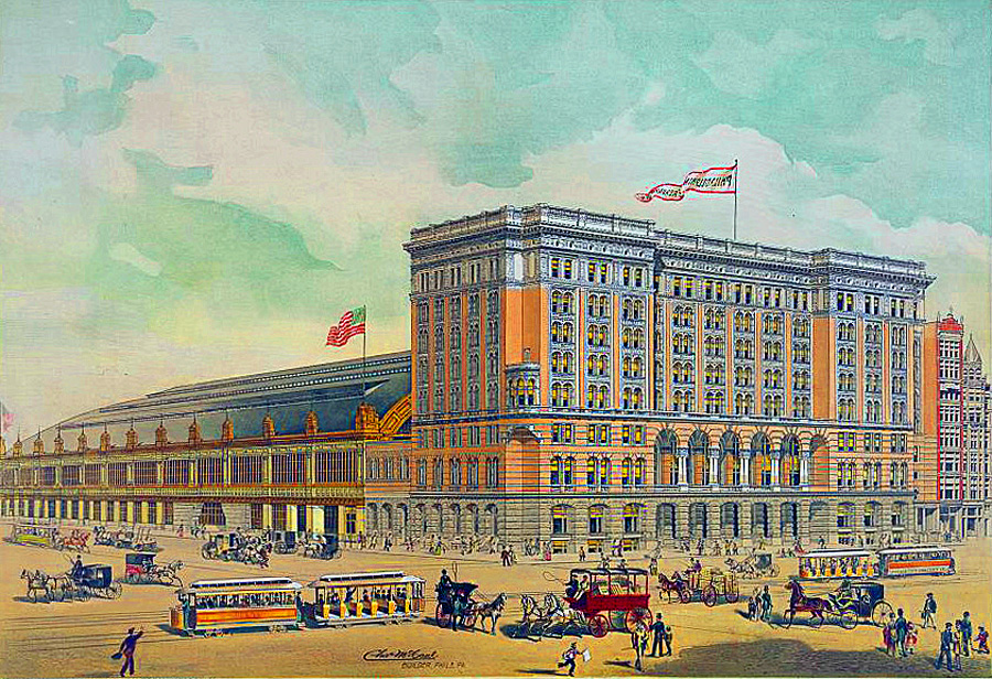 The Philadelphia & Reading Railroad Terminal, 12th & Market Streets, Philadelphia, PA. (Color engraving of opening in 1893) The Cooper Collection of American Railroadiana (uploader's private collection)